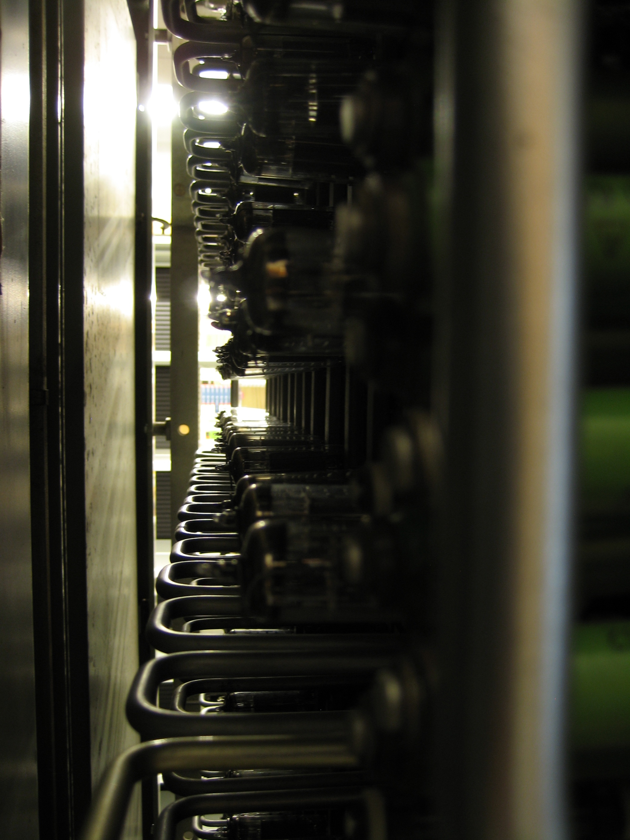 Vacuum tubes inside the ZRA 1